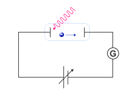 Arrangement for determining the kinetic energy of electrons, work function, the photoelectric equation, Planck's constant.